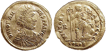 Joannes. 423-425 AD. AV Solidus (4.36 gm). Ravenna mint. D N IOHANNES PF AVG, rosette-diademed bust right VICTORIA AVGGG, Emperor standing right, holding Victory, Labarum, foot on captive, R-V, CONOB. RIC X 1901 (R2); Depeyrot 12/1. Little is known of the origin and early career of Johannes (John), but at the time of the death of the western Emperor Honorius (August 15, 423 AD) he occupied a position of great influence as head of the palace bureaucracy in Ravenna. An ‘interregum’ of several months followed Honorius' death during which the eastern Emperor Theodosius II (402-450) was technically the ruler of the entire Empire. On 20 November the situation was dramatically changed by the proclamation of Johannes in Ravenna as emperor of the West. Theodosius refused to countenance this usurpation and decided to support the claim to the western throne of his young cousin, Valentinian, son of the late Emperor Constantius III and the Empress Galla Placidia. Towards the end of 424 a large army was despatched from the East with orders to remove Johannes from power and to install Valentinian III as emperor of the West. After various setbacks this task was accomplished and the unfortunate Johannes was taken prisoner in Ravenna and sent to Aquileia for execution. his reign had lasted little more than a year and a half. The rare coinage of Johannes was issued mostly from his capital of Ravenna where at least five denominations were produced. This attractive solidus is of the usual ‘western’ design, with a profile bust of the emperor on obverse and his standing figure spurning a barbarian captive on reverse. The portrait depicts the emperor bearded, an unusual feature at this time and one which was sometimes associated with pagan sympathies.